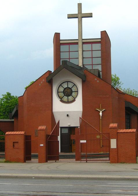 Old Catholic Mariavite Church in Warsaw (Poland)